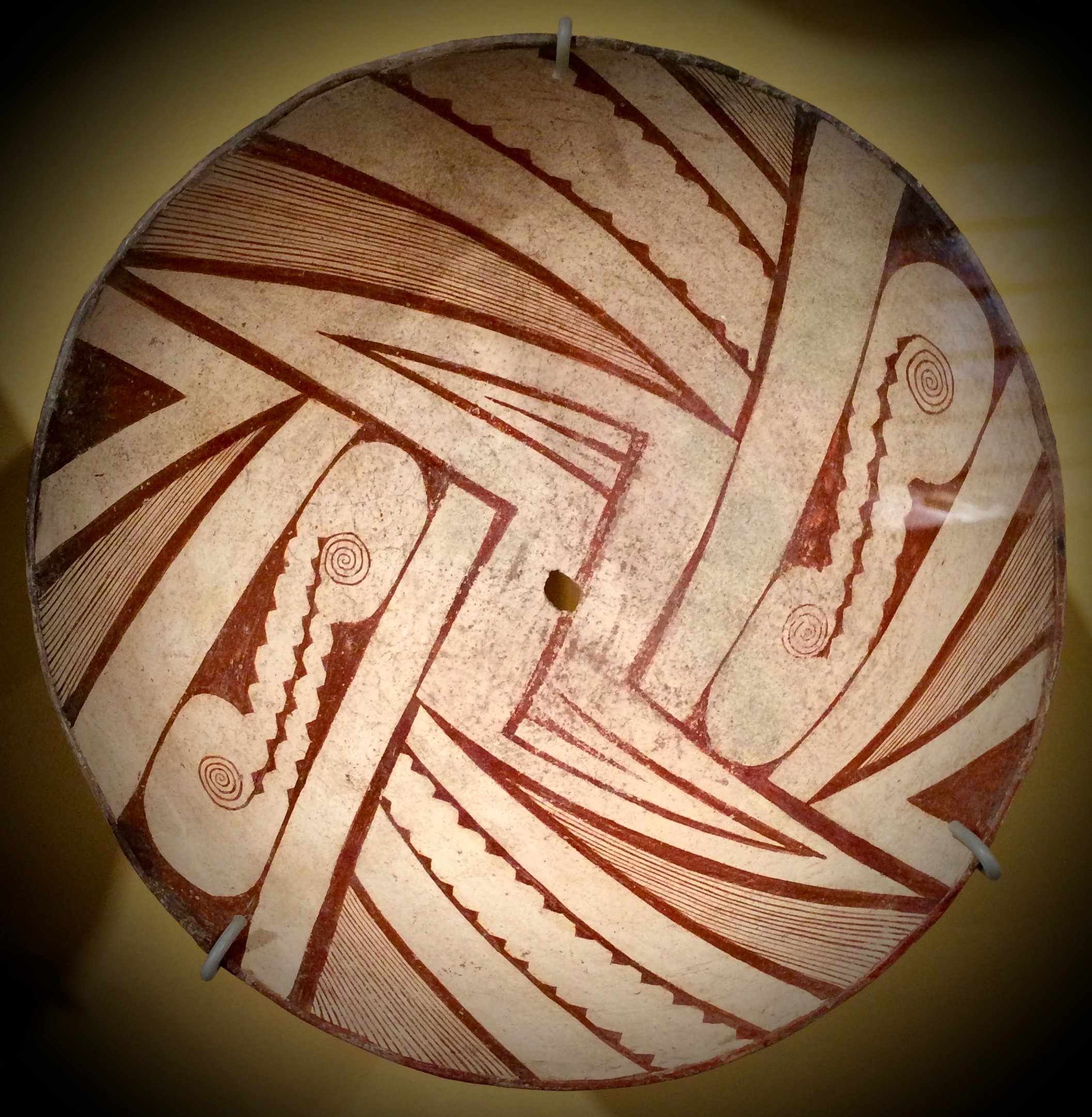 Large red on white Mimbres plate, showing signs of wear and use. Masterfully painted pot. Red on white pots are generally considered (by archaeologists) to be misfired -- but that's hard to believe for a masterwork like this. Cantor Art Museum, Stanford